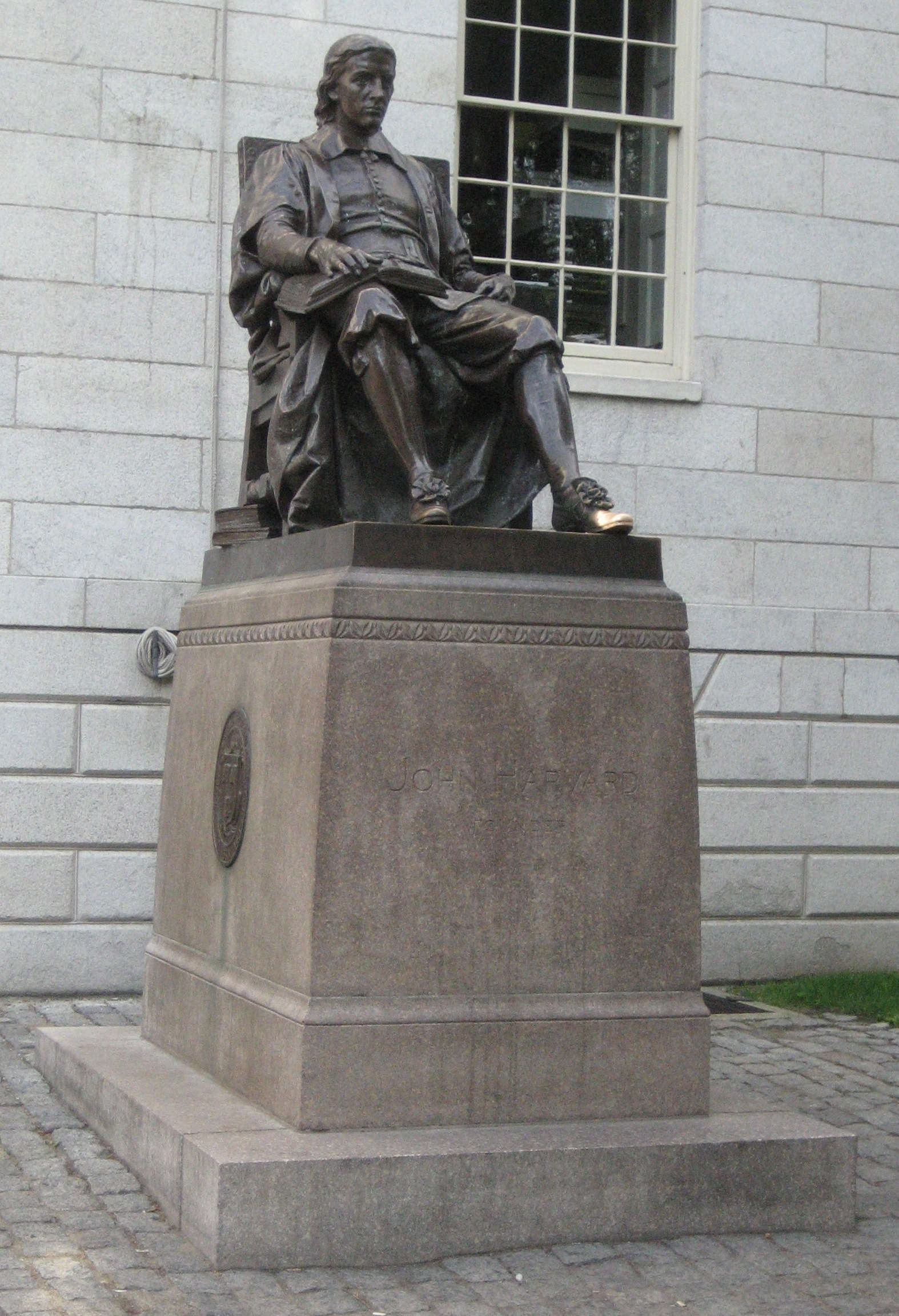 "Idealized" representation of John Harvard (there being nothing to indicate what he had actually looked like), Harvard Yard|, Harvard University, Cambridge, Massachusetts.Urban legend has it that the toe of the statue's left foot is kept very shiny by two curious traditions: Tourists rub it for luck by day, and students urinate on it by night. However, despite the statue's being directly in front of the offices of the Dean of Harvard College, and across from the office of the President of Harvard University, the last time (as of 2013) anyone was apprehended for any kind of excretory offense on or near it was when a non-Harvard affiliated person was found defecating behind it in 2001. See [1]